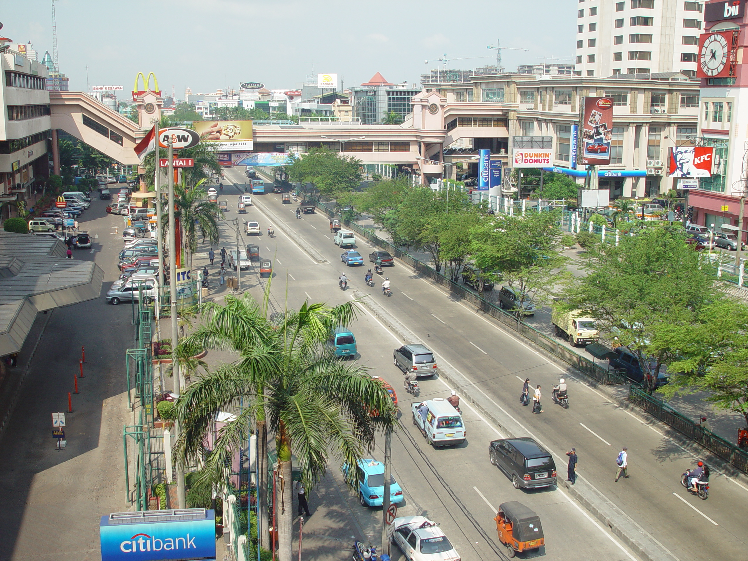 Corporate globalization mall cultural in Jakarta, Indonesia.